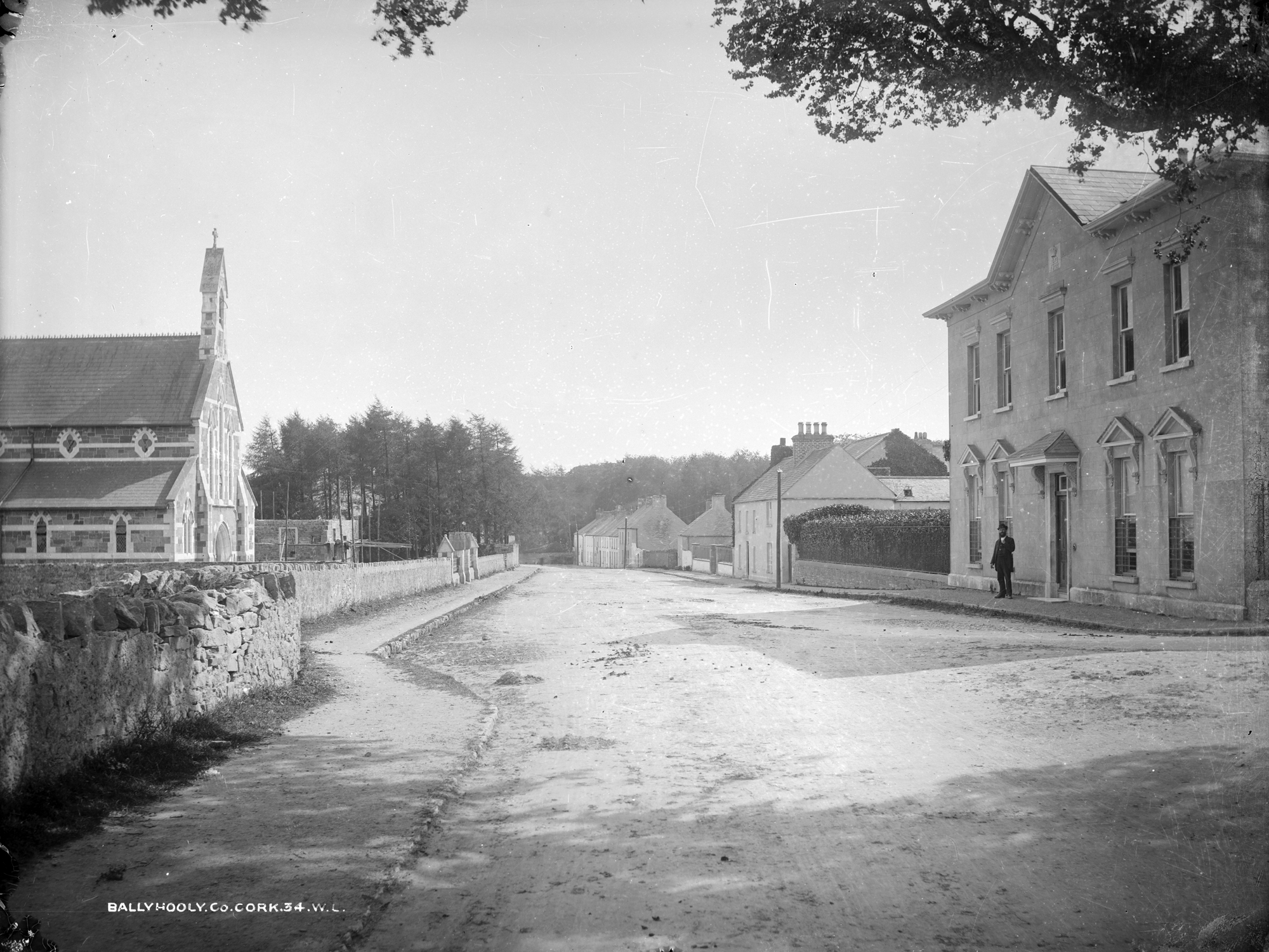 Ballyhooly, County Cork NLI Ref.: L_ROY_00034